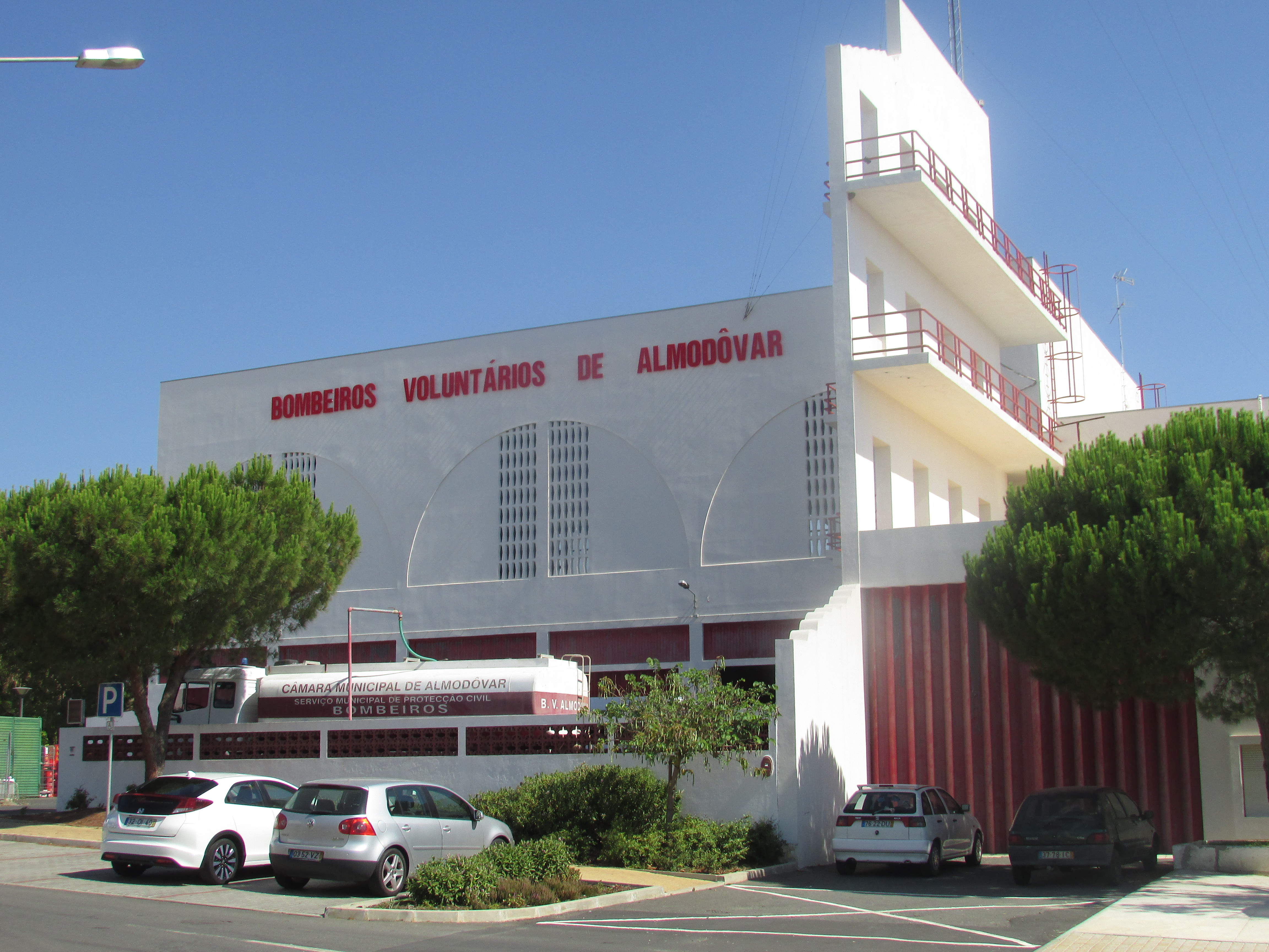 The Fire station is located on Rua dos Bombeiros within the town of Almodôvar in the district of Beja, Alentejo, Portugal.